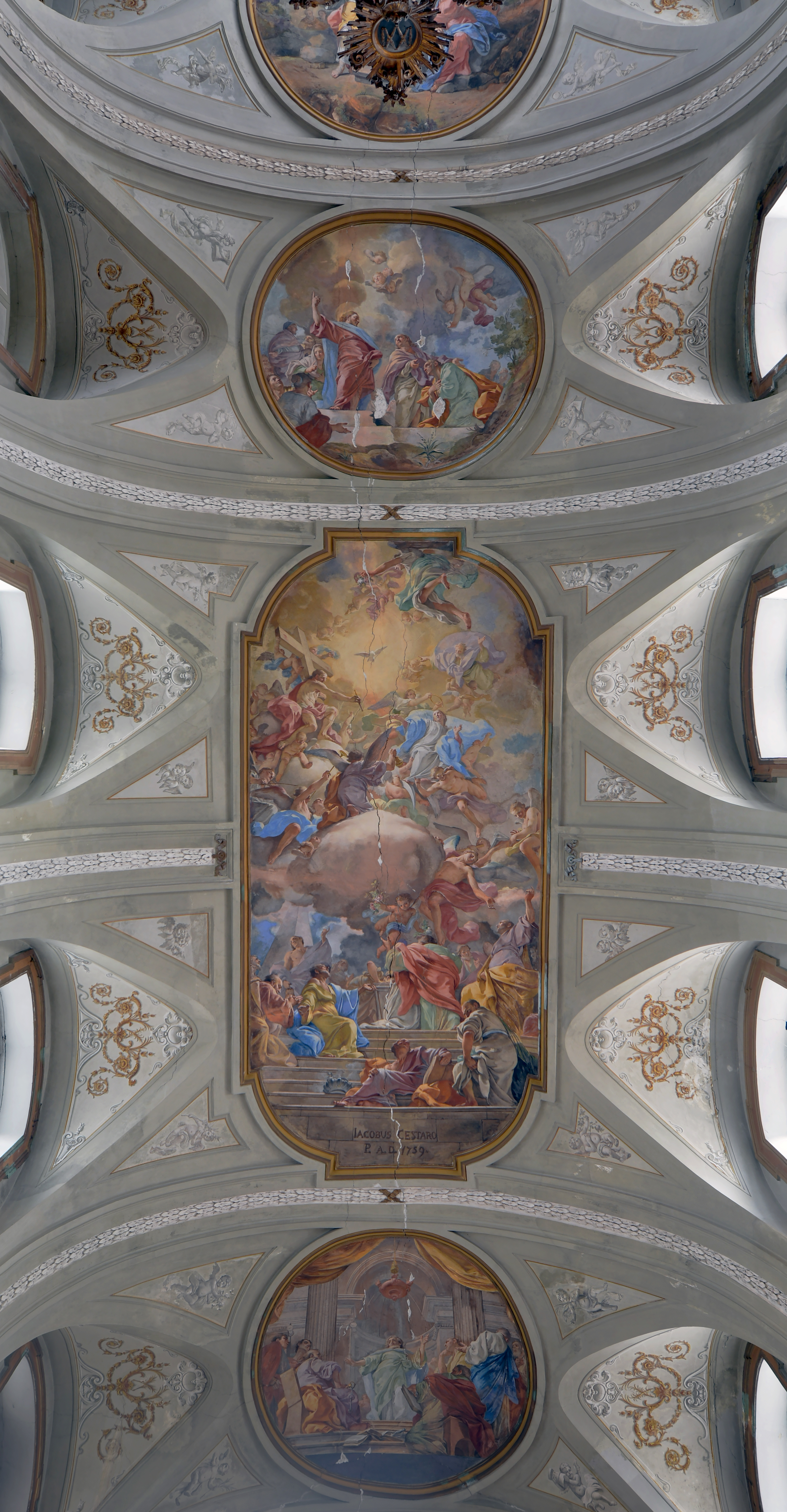 Santi Filippo e Giacomo (Naples) - Ceiling